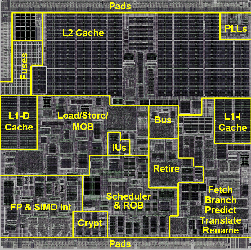 Photograph of the die of a VIA Isaiah, see also Floorplan (microelectronics).